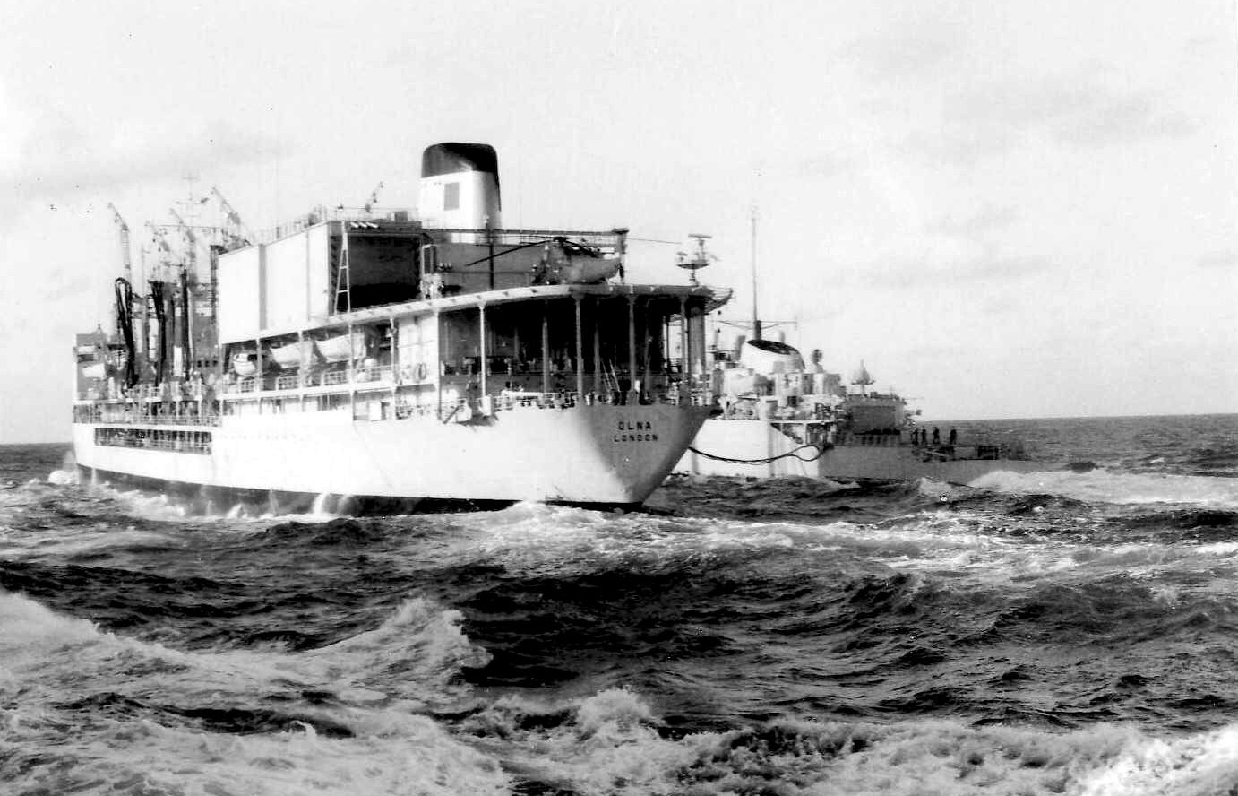 Bristol Group - HMS Avenger conducting replenishment at sea (RAS) with RFA Olna. May 1982. Picture taken from HMS Cardiff